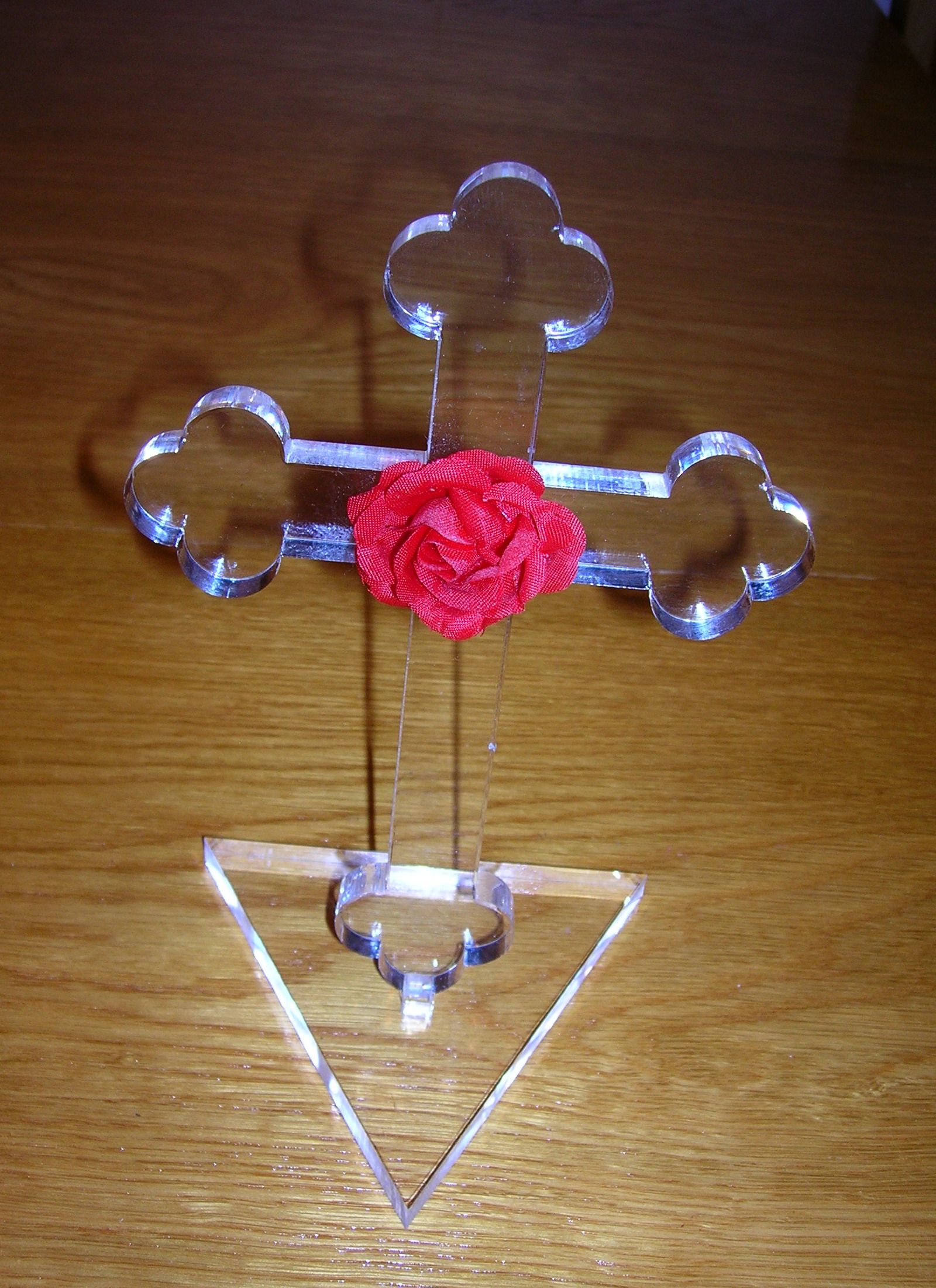 A rose cross in plexiglas, bought in A.M.O.R.C.s shop Espace in Onsala, Sweden. Snapshot taken on April 2, 2006, with a NIKON Coolpix 5600 5,1 Megapixel digital camera. I, Frater Dignus, gives the permission to use this image for any purpose whatever, as public domain.